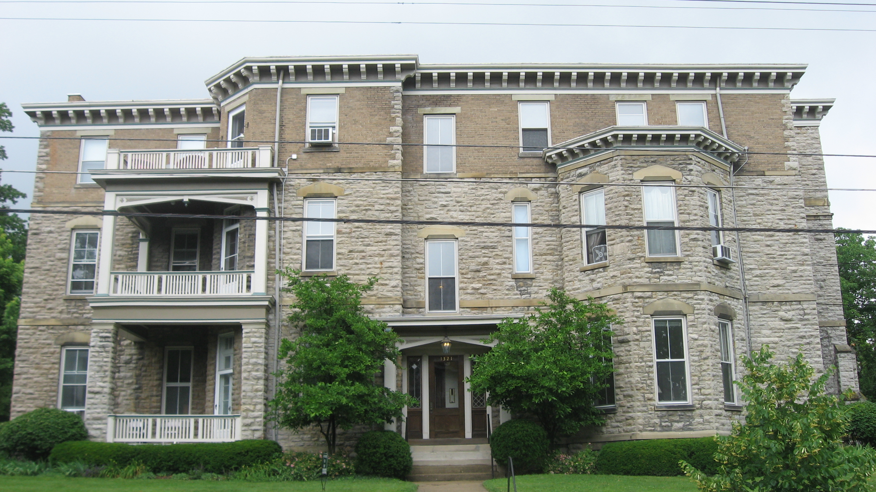 Front of the John Henry Weston House, located at 1321 Michigan Avenue in Cincinnati, Ohio, United States. Built in 1873 and since converted into apartments, it is listed on the National Register of Historic Places.